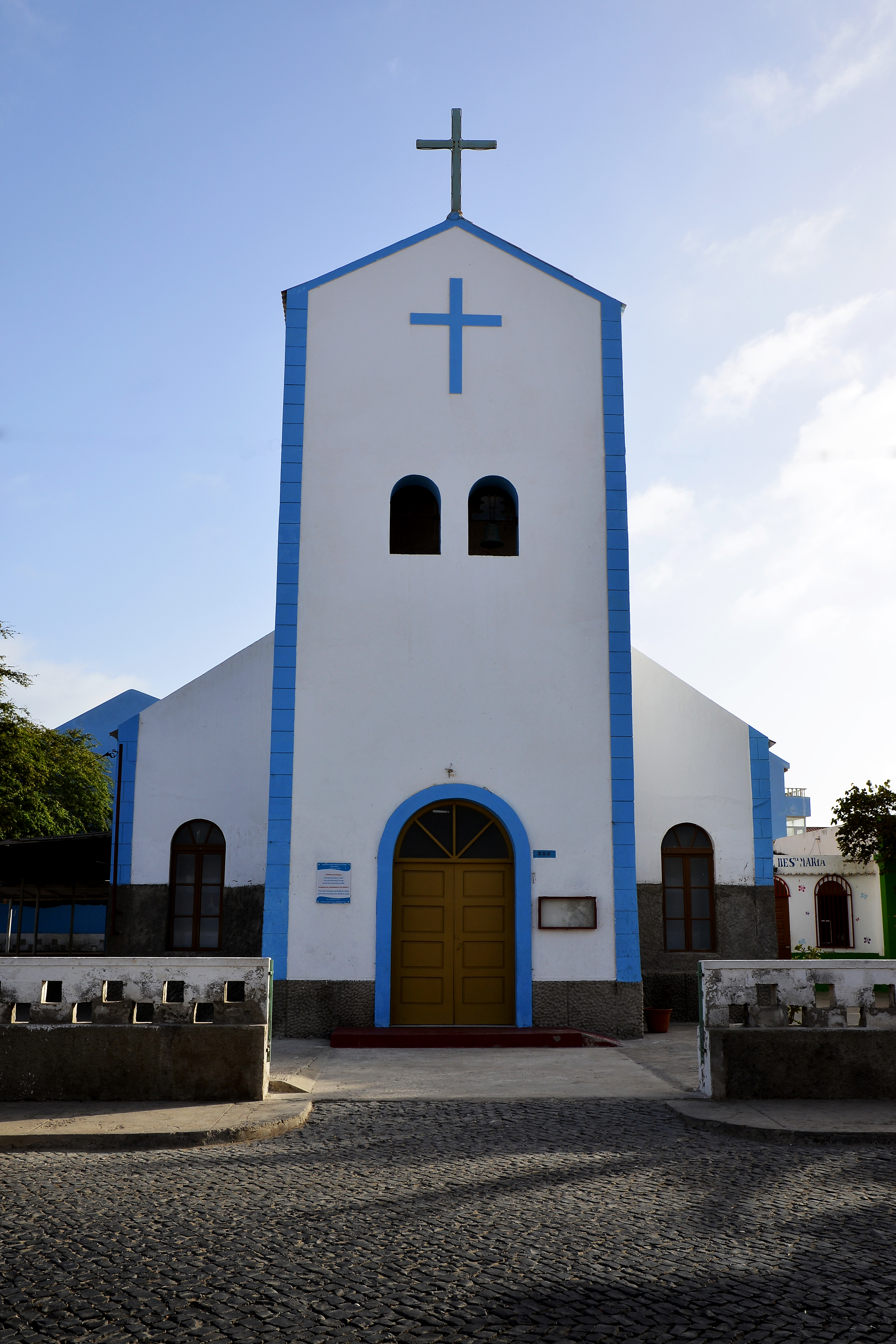 Their Church